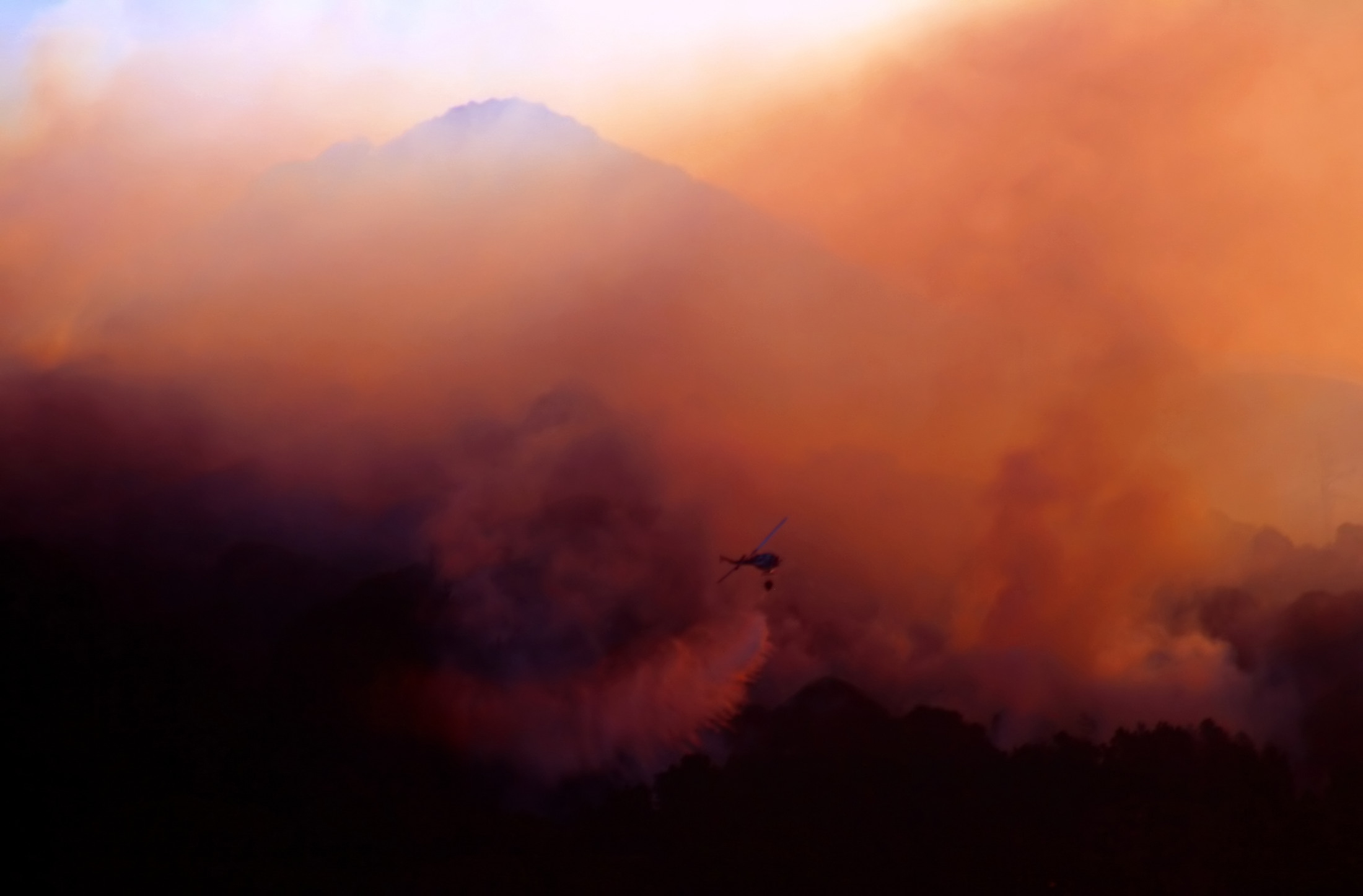 A helicopter is fighting Wildfire on Angel Island